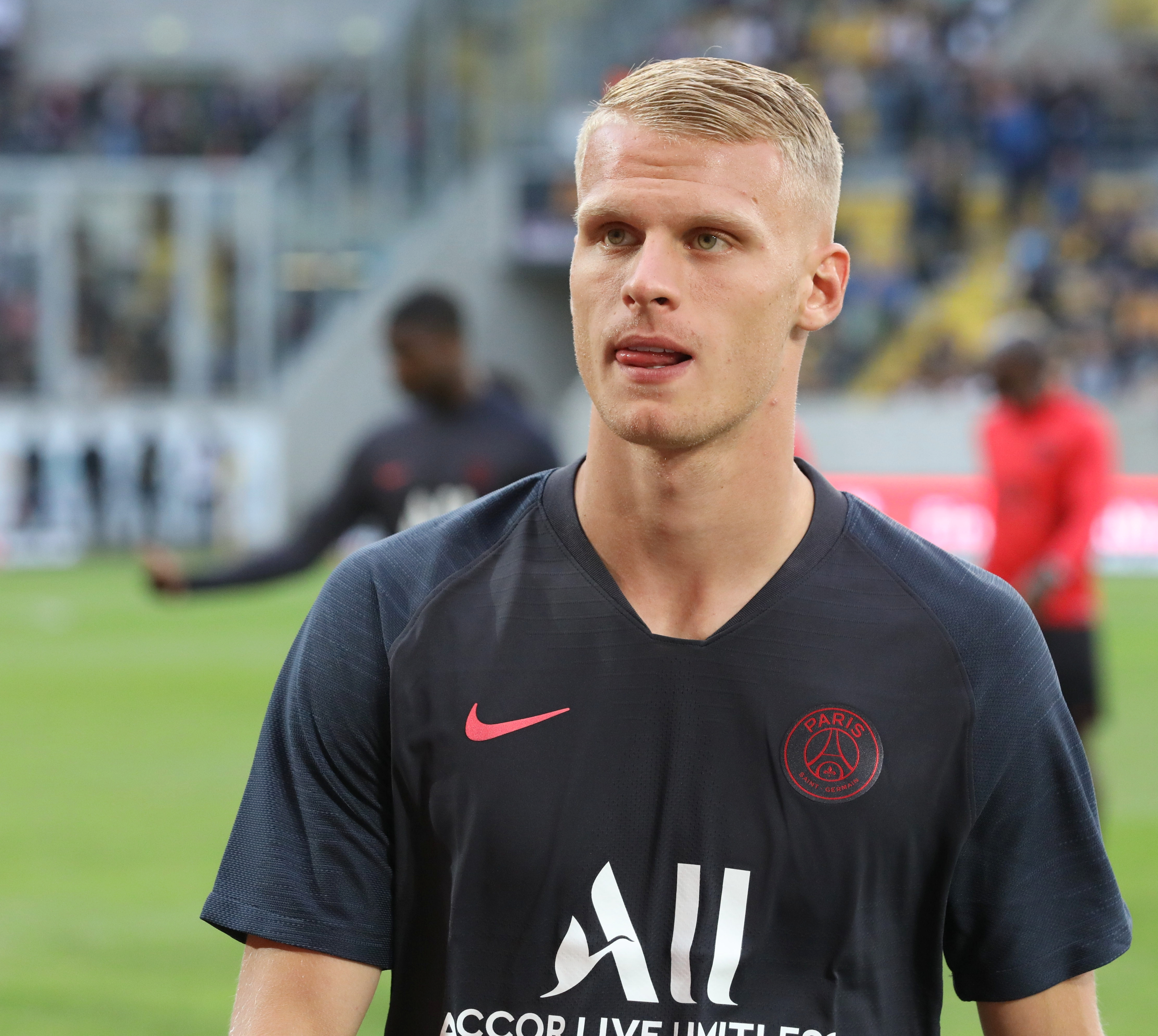 Test game, 17th July 2019: SG Dynamo Dresden vs. Paris Saint-Germain 1:6 (0:3)